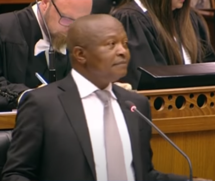 Deputy President David Mabuza answers questions on trade and investment policies in Parliament.